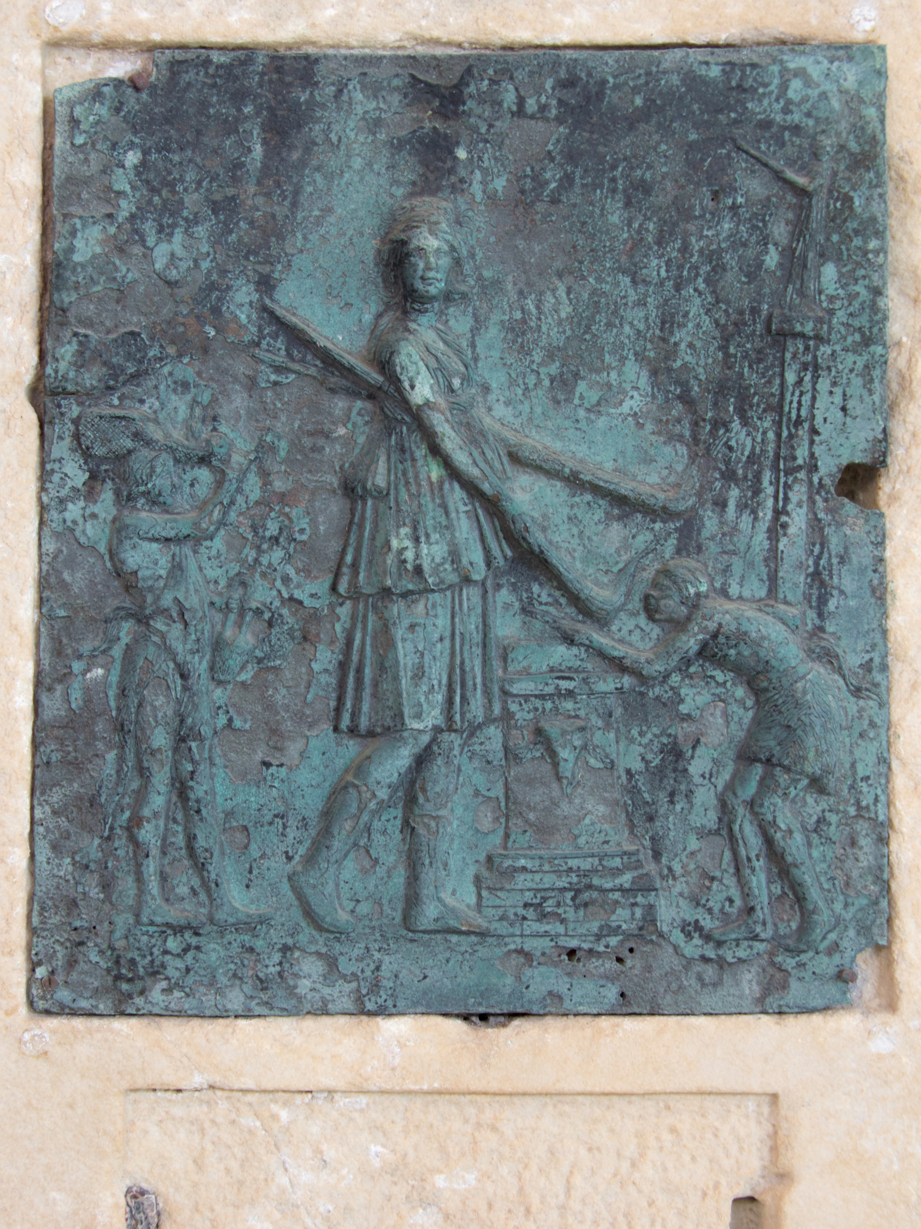 The bronze relief from votive stele, probably from the sanctuary of Agathe Tyche on Delos: Artemis with two satyrs preparing victim. 225-200 BC. Museum of Delos A1719.